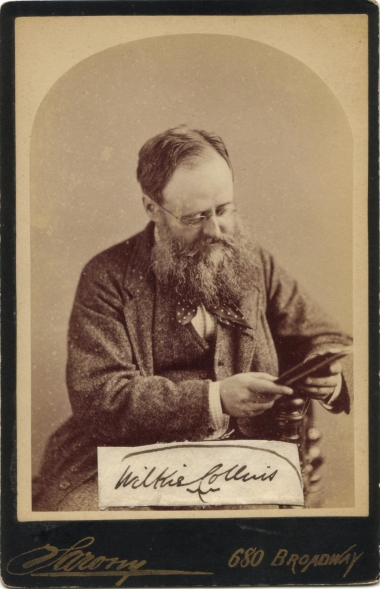 Cabinet card of Wilkie Collins (1824-1889) in 1874, aged 50, photograph by Napoleon Sarony (1821-1896). Signature was pasted later.